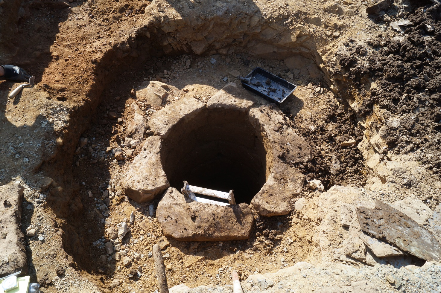 The excavation of the well at Druminnor Castle in August 2019. This was part of an multi-year investigation at the castle.